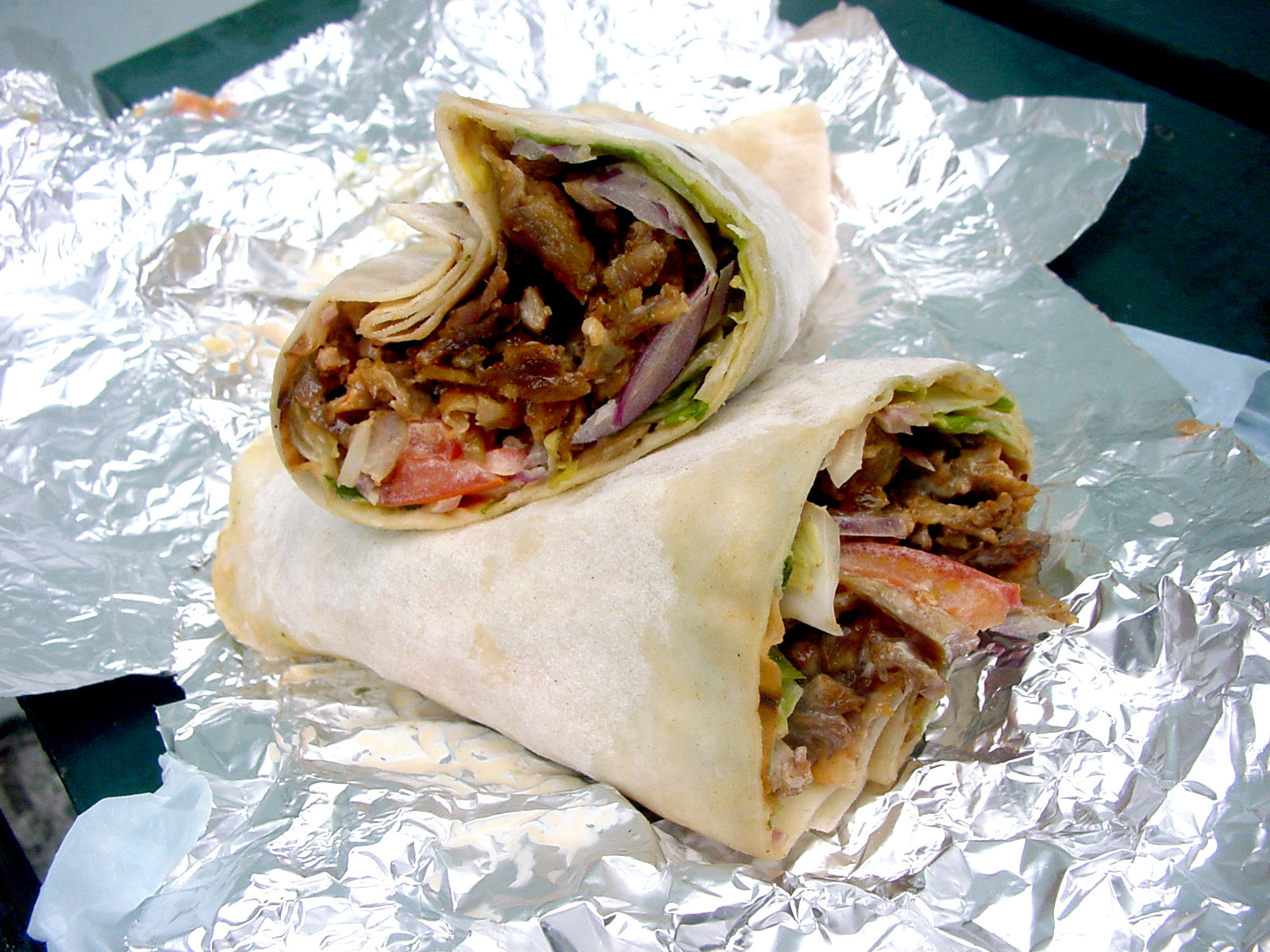 2 rolls of lamb roti roll